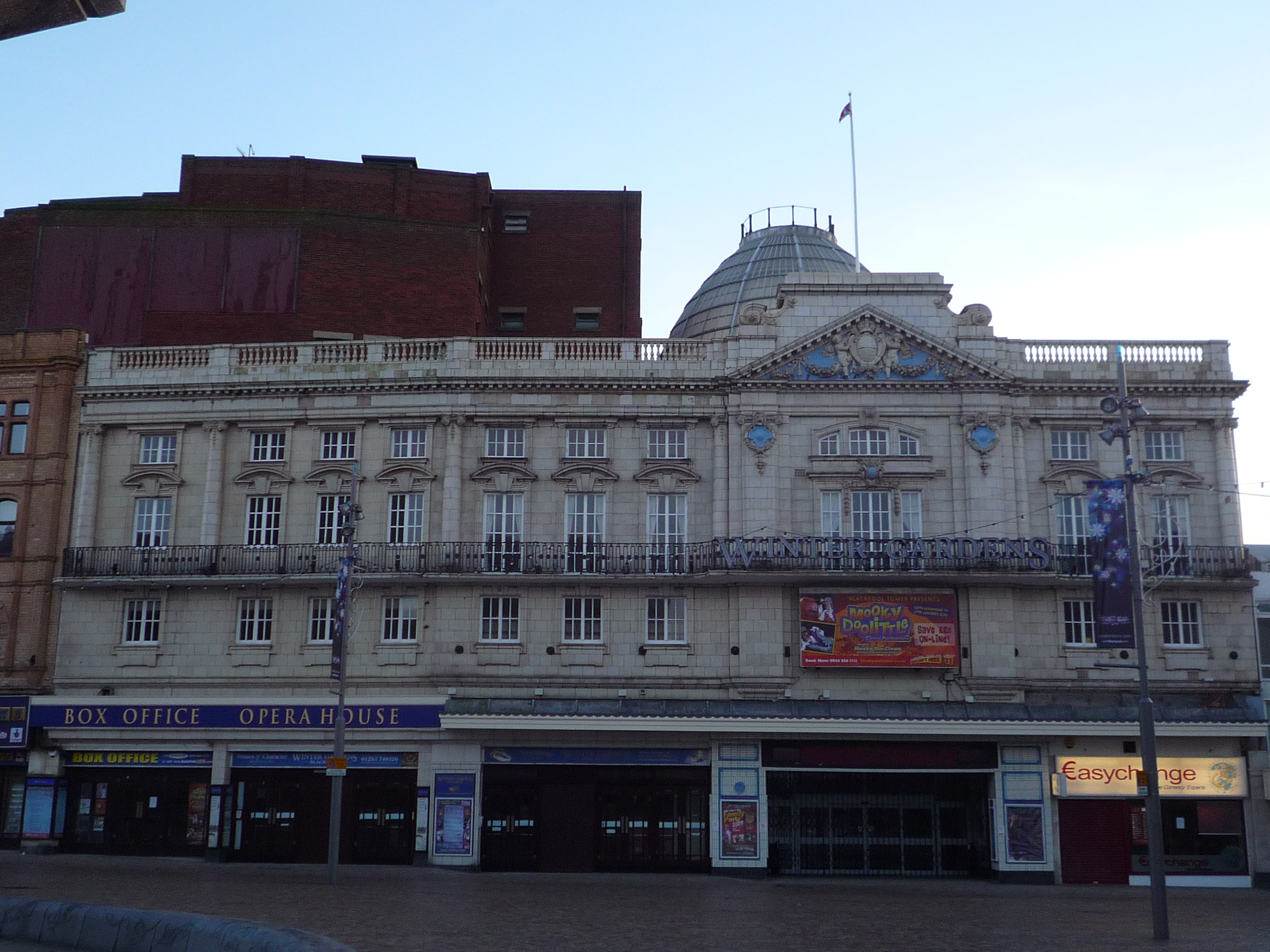 The Church Street frontage of the Winter Gardens, Blackpool. The entrance to the Opera House Theatre is on the left.